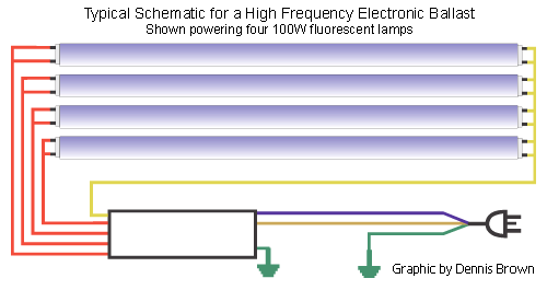 Typical wiring diagram showing the configuration of four lamps using high frequency electronic ballasts.